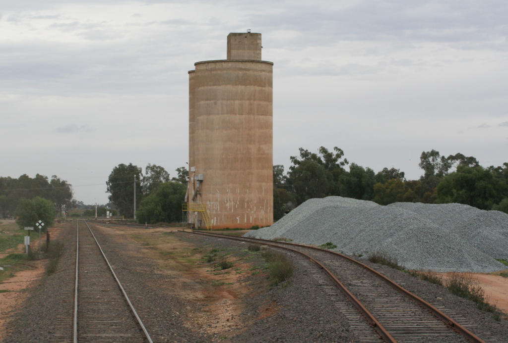 Katunga railway station, Victoria freight facilities: looking north, grain silos and loop siding.